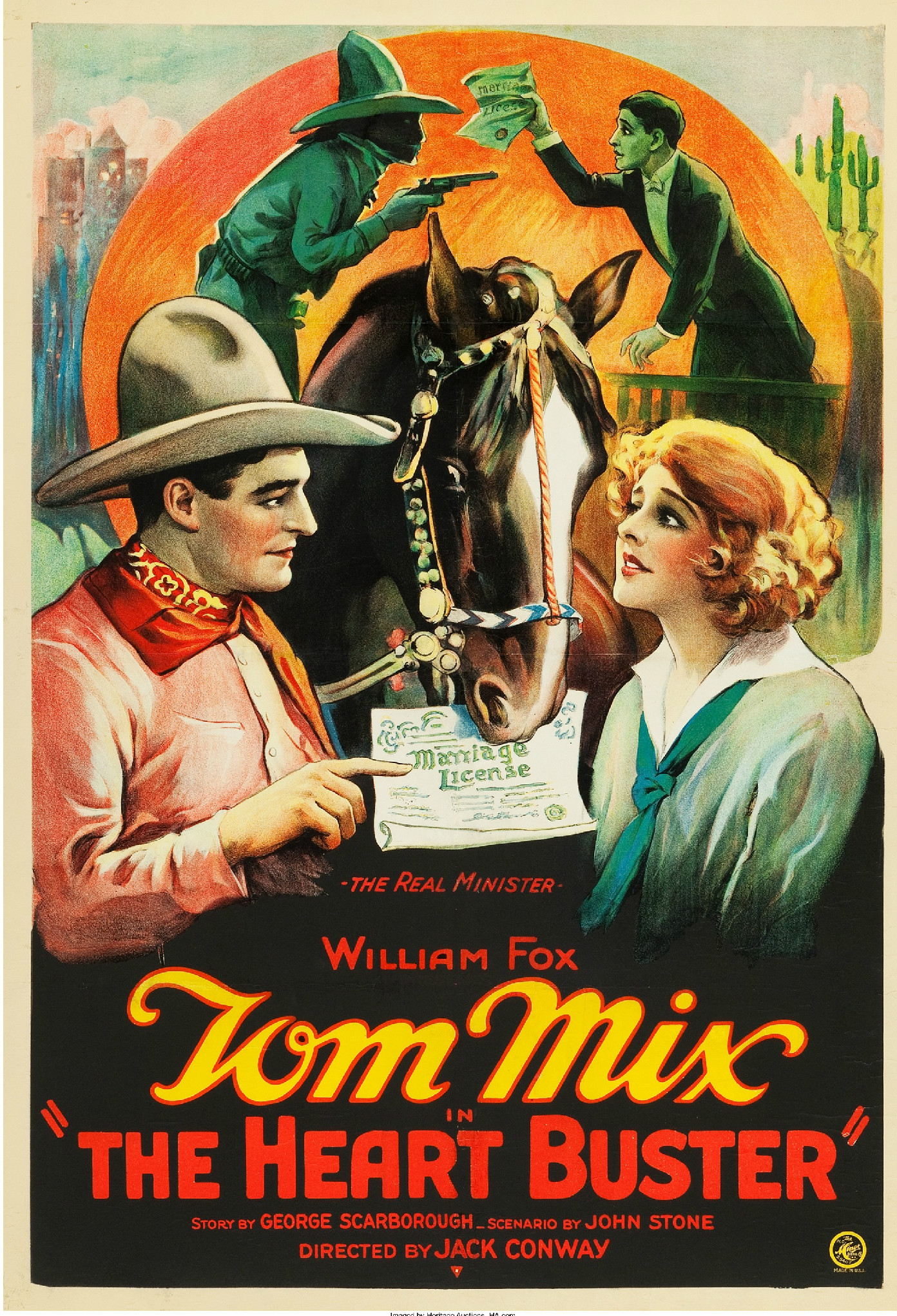 Poster for the American comedy western film The Heart Buster (1924).